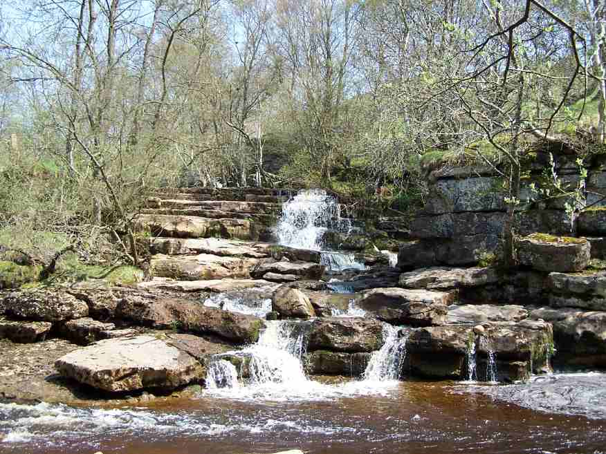 The lower part of East Gill Force as the Gill joins the River Swale. Personal photograph taken by Mick Knapton on 8th May 2006